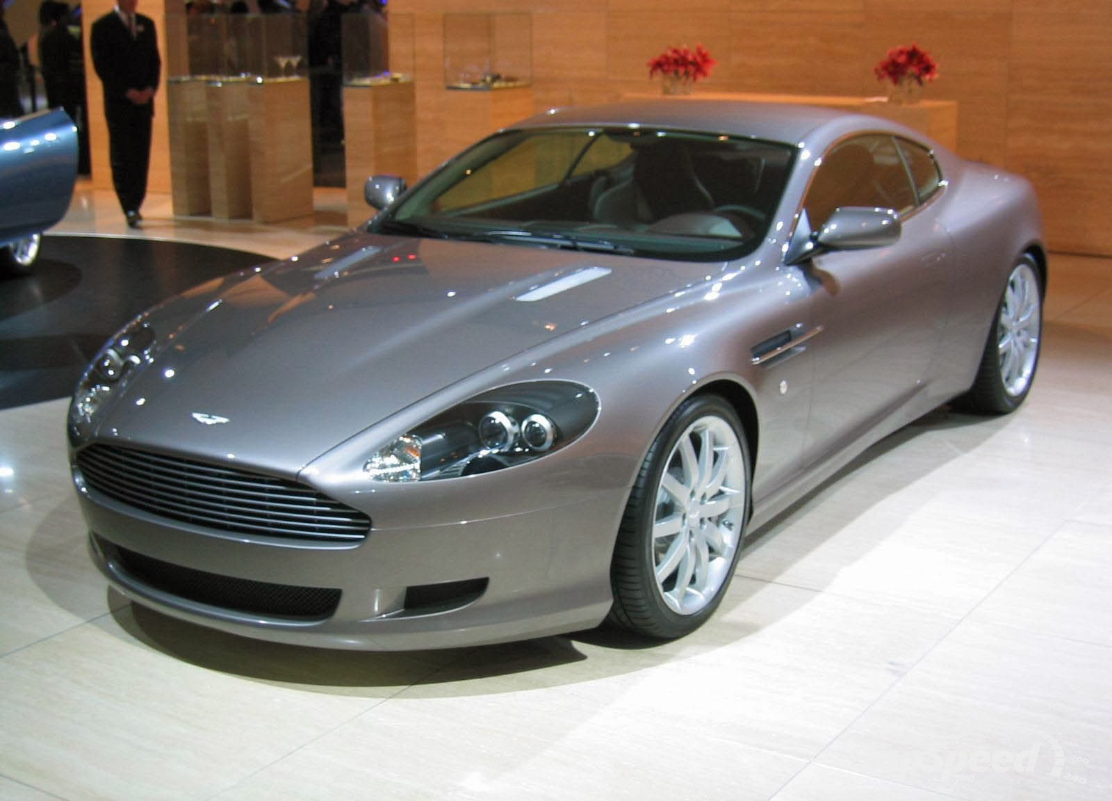 2004 Aston Martin DB9 Coupe at the 2004 North American International Auto Show in Detroit. Picture taken by Martin Hidinger in January 2004 and released to the public domain.